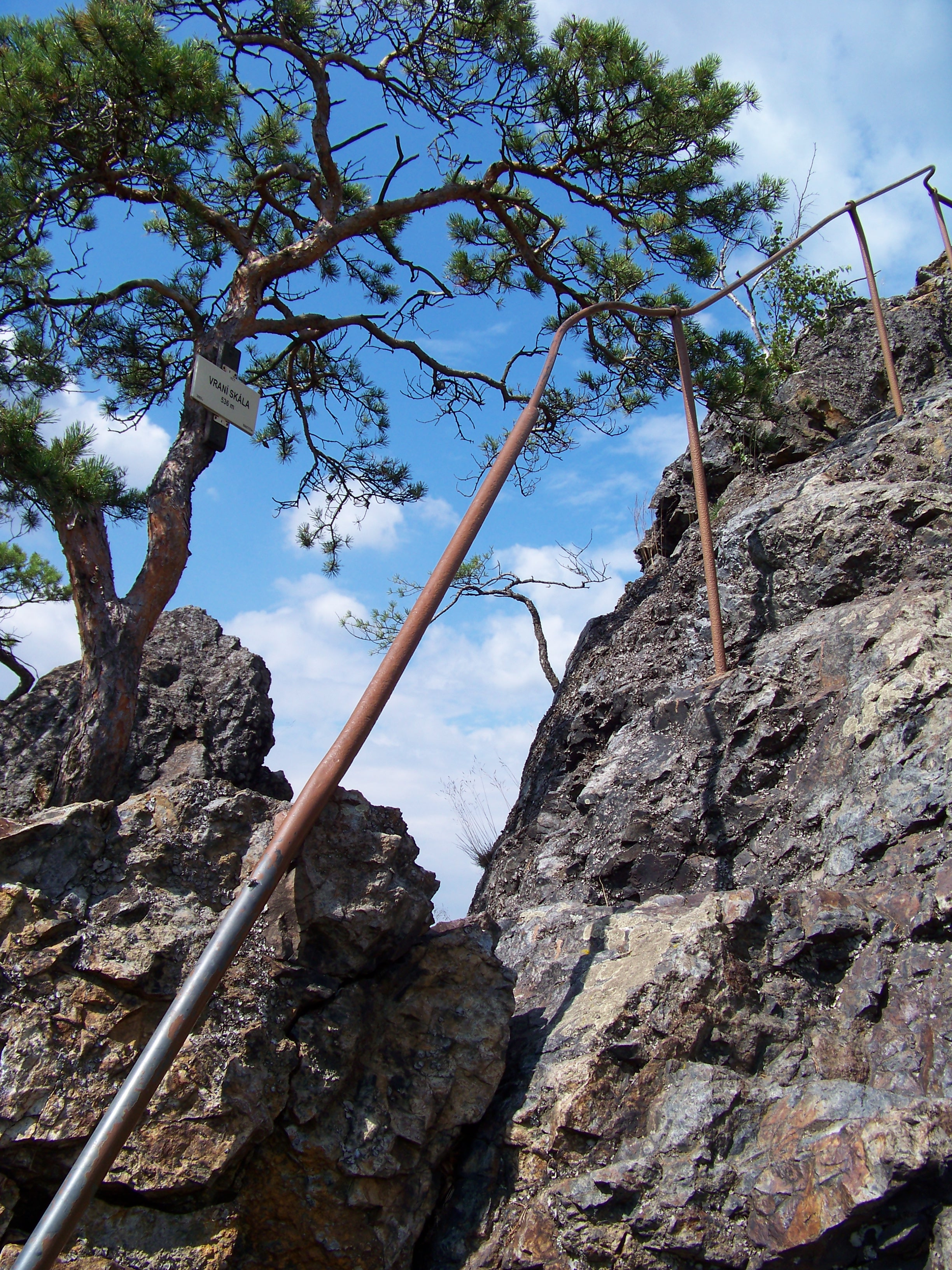 Svatá, Beroun District, Central Bohemian Region, the Czech Republic. Vraní skála (Crow Rock).